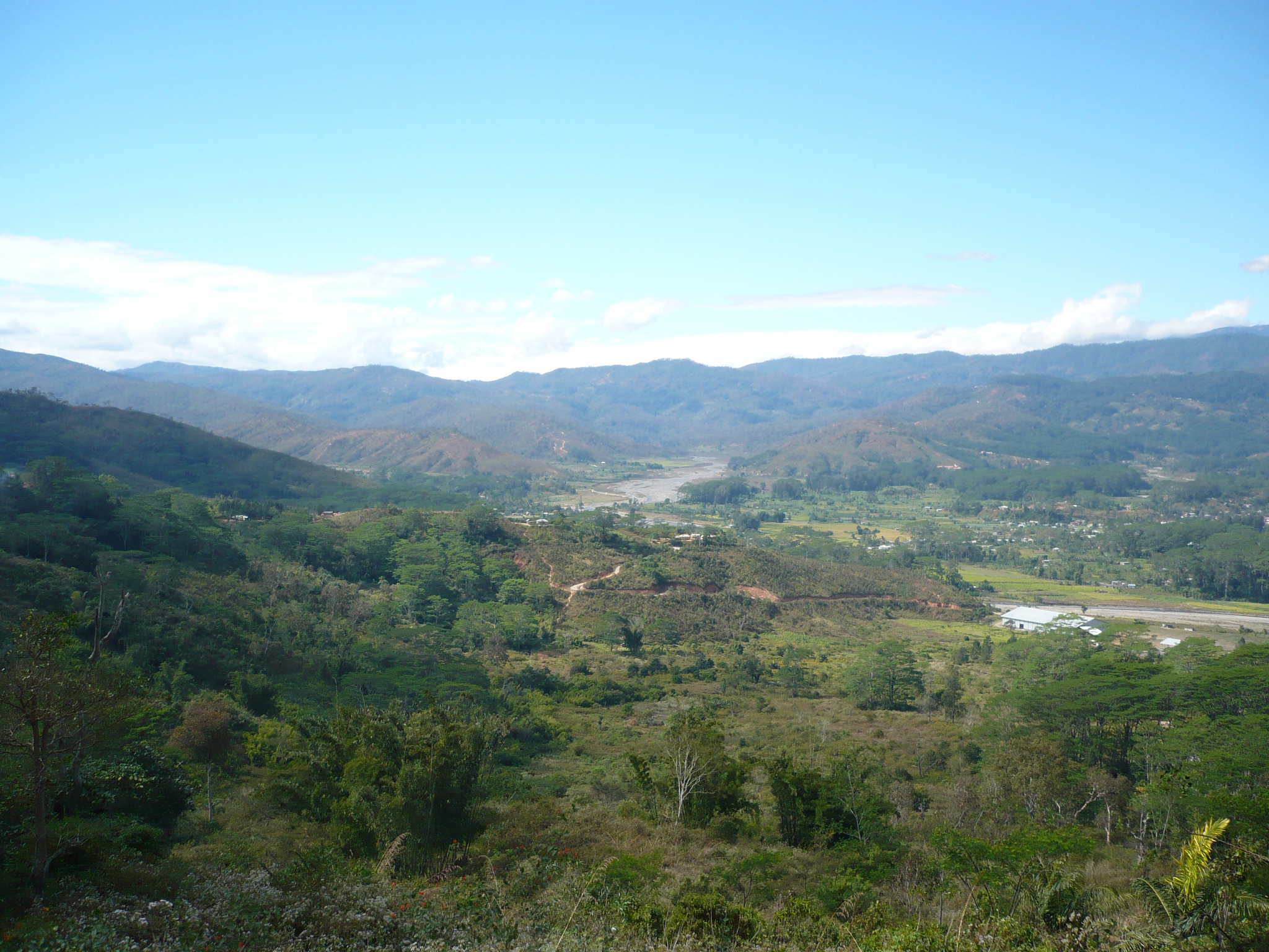 Timor-Leste: District Ermera, Sub-District Ermera, Suco Riheu, City Gleno